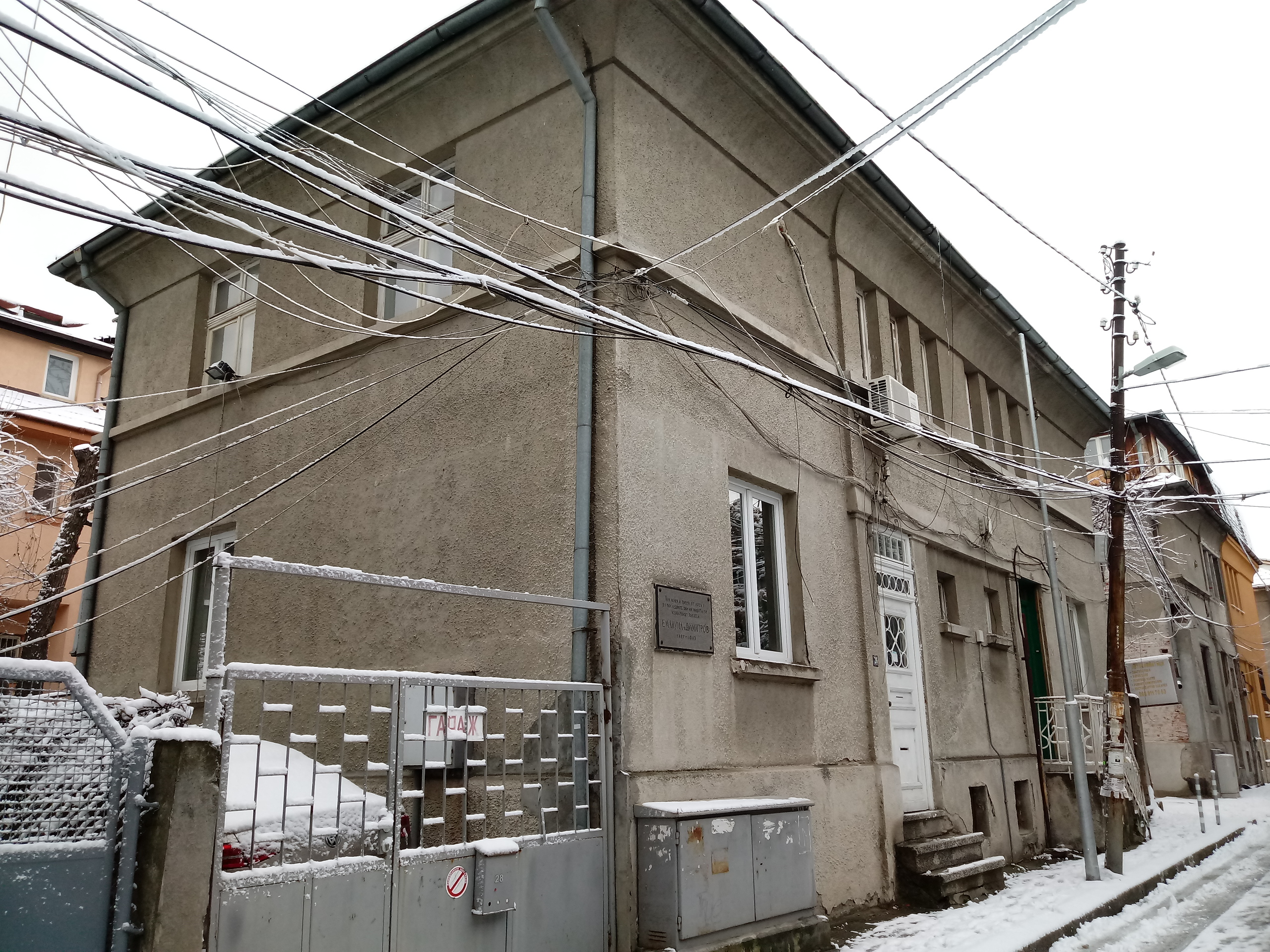 Emanuil Popdimitrov home with memorial plaque, 26 Avicenna Str., Sofia